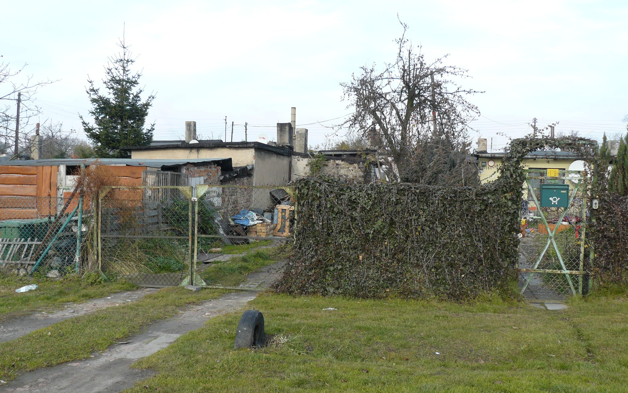 Maltanskie District - Poznan.